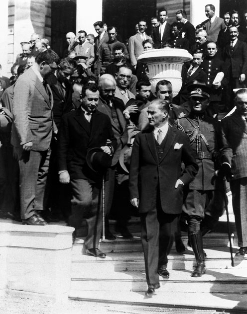 Kemal Atatürk (or alternatively written as Kamâl Atatürk, Mustafa Kemal Pasha until 1934, commonly referred to as Mustafa Kemal Atatürk; 1881 – 10 November 1938) was a Turkish field marshal, revolutionary statesman, author, and the founding father of the Republic of Turkey, serving as its first President from 1923 until his death in 1938. He undertook sweeping progressive reforms, which modernized Turkey into a secular, industrial nation. Ideologically a secularist and nationalist, his policies and theories became known as Kemalism. Due to his military and political accomplishments, Atatürk is regarded as one of the most important political leaders of the 20th century.